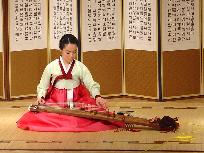 A musician playing a 12-string sanjo gayageum. The musician is named KWON Eun Kyung (권은경) and she is performing Kim Chuckpa Gayageum Sanjo. Details of concert: 이화여대 2007 국악과 졸업연주회 (2007 Graduation concert), Korean Music Major, Division of Musics, College of Art.